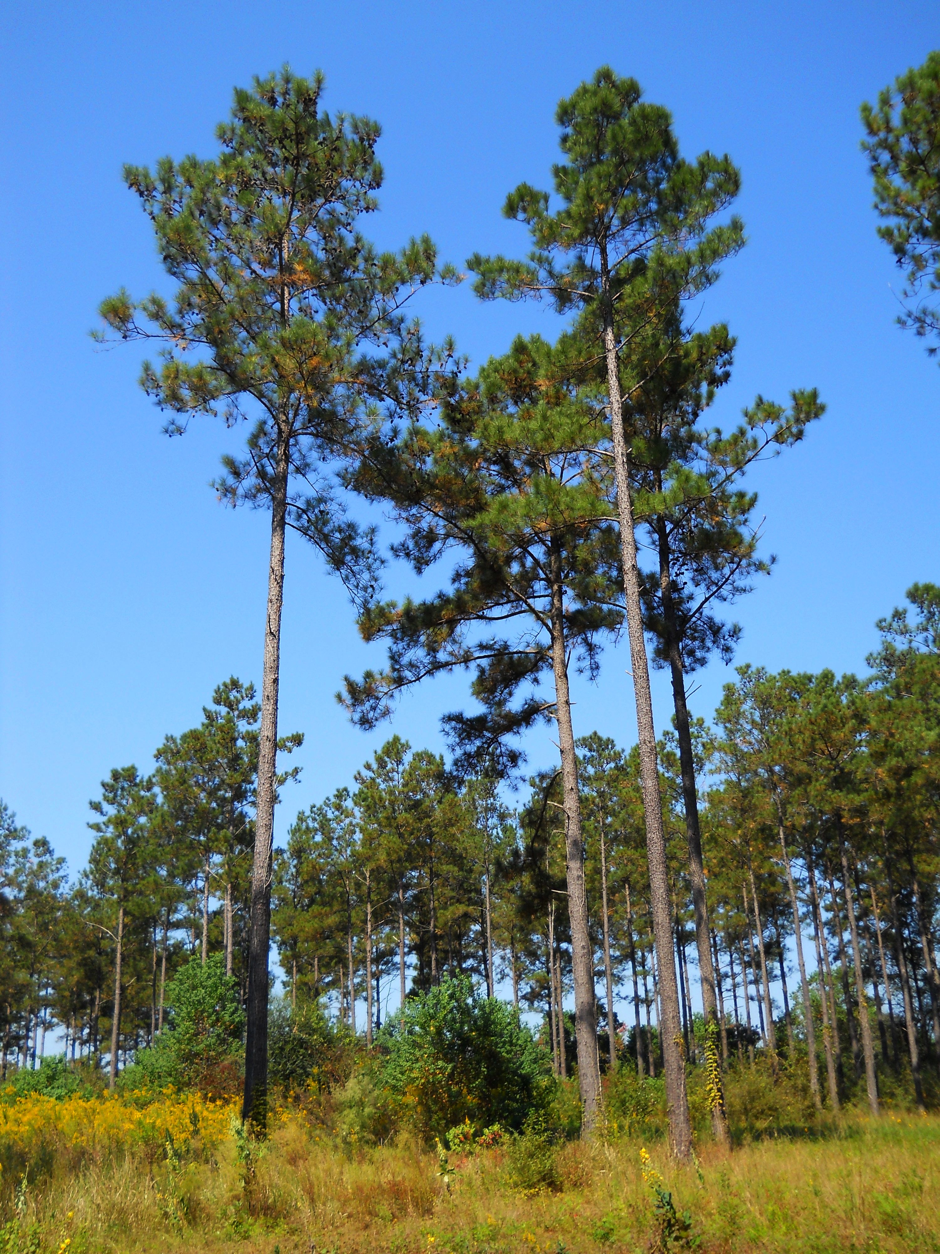 Characteristic appearance of boles and crowns for loblolly pines (Pinus taeda) growing in south Mississippi, USA.